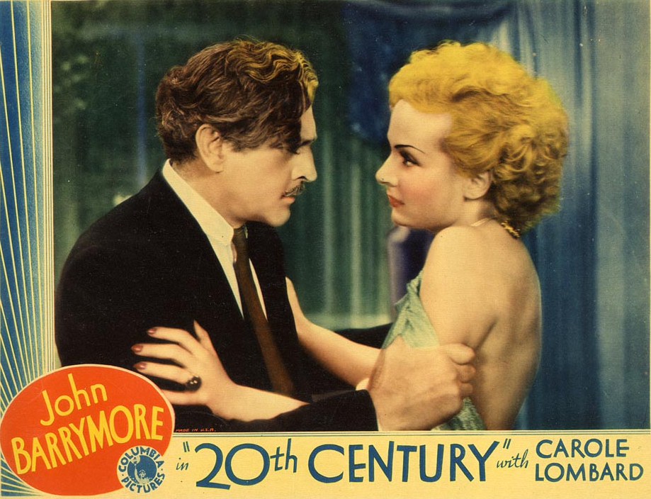 Cropped lobby card for the film Twentieth Century